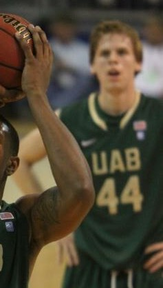 Jordan Swing of UAB